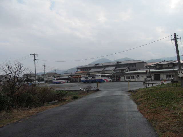 Nishinihon jr bus tsuyama hakusyo1